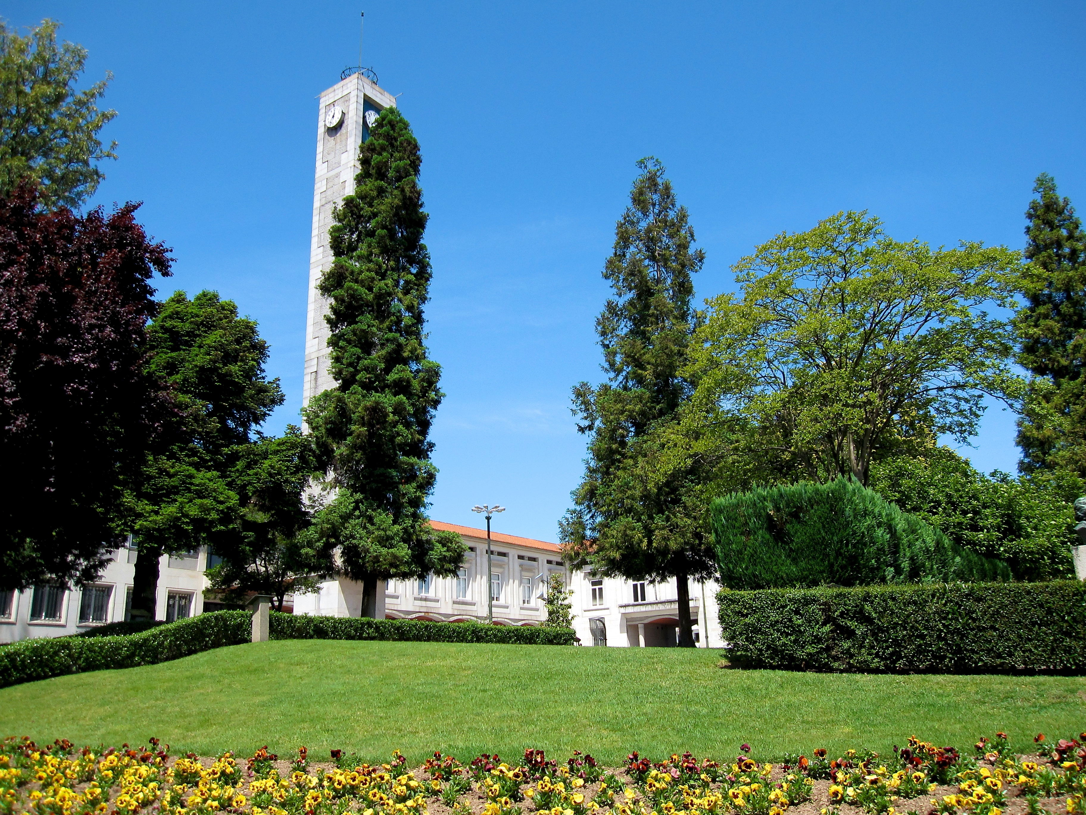 This file was uploaded for Wiki Loves Monuments in Portugal with the unique identifier 97016390.